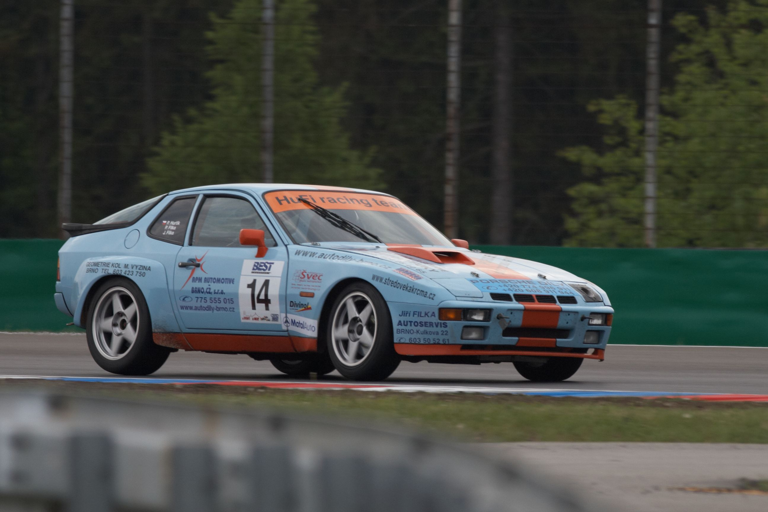 Porsche 924 GTS during 12h Le Brno race